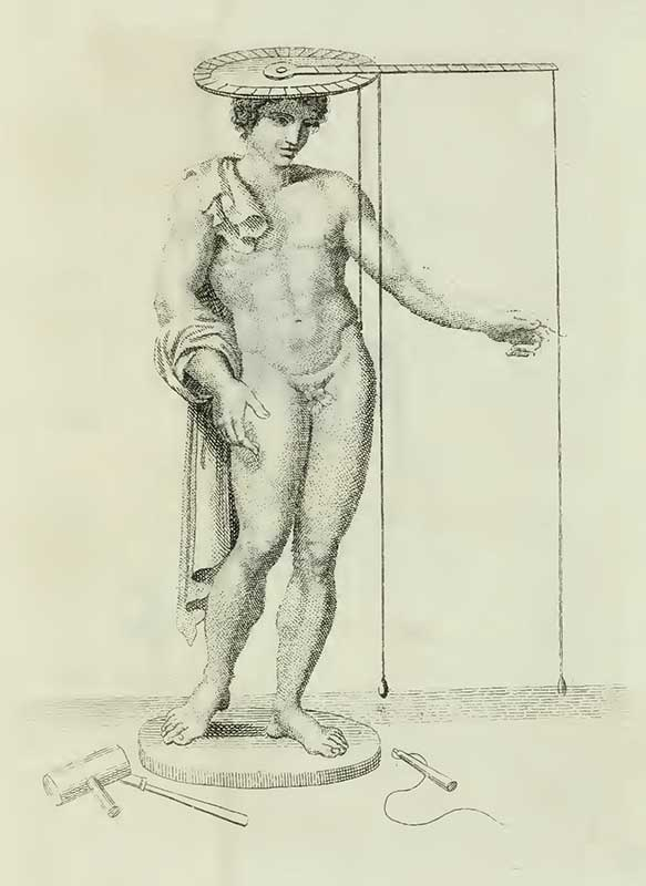 A diagram of Alberti’s Finitorium, from his book De Statua (On Sculpture), 1466